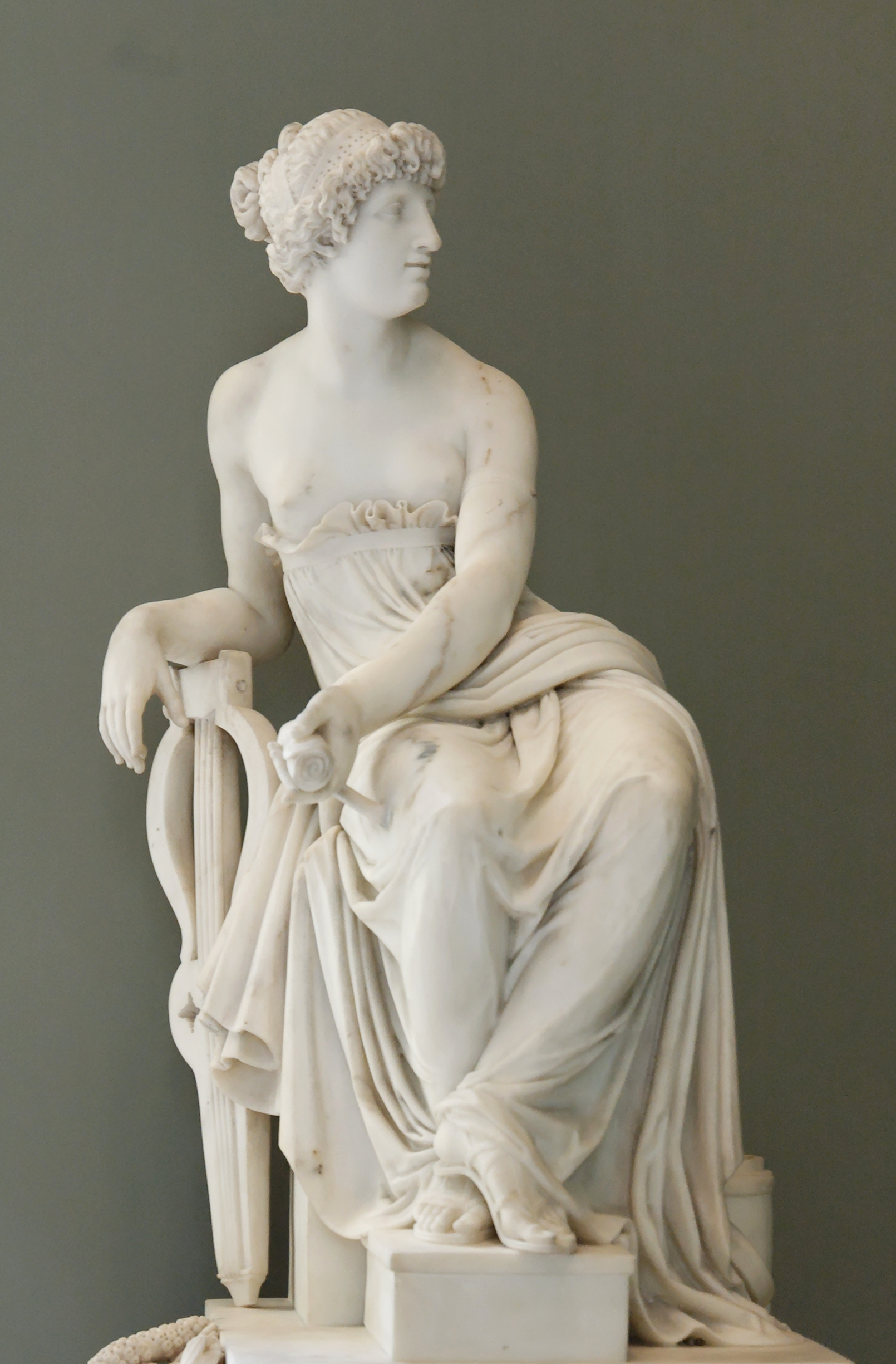 A representation of the Greek poetess holding her letter to her lover Phaon.